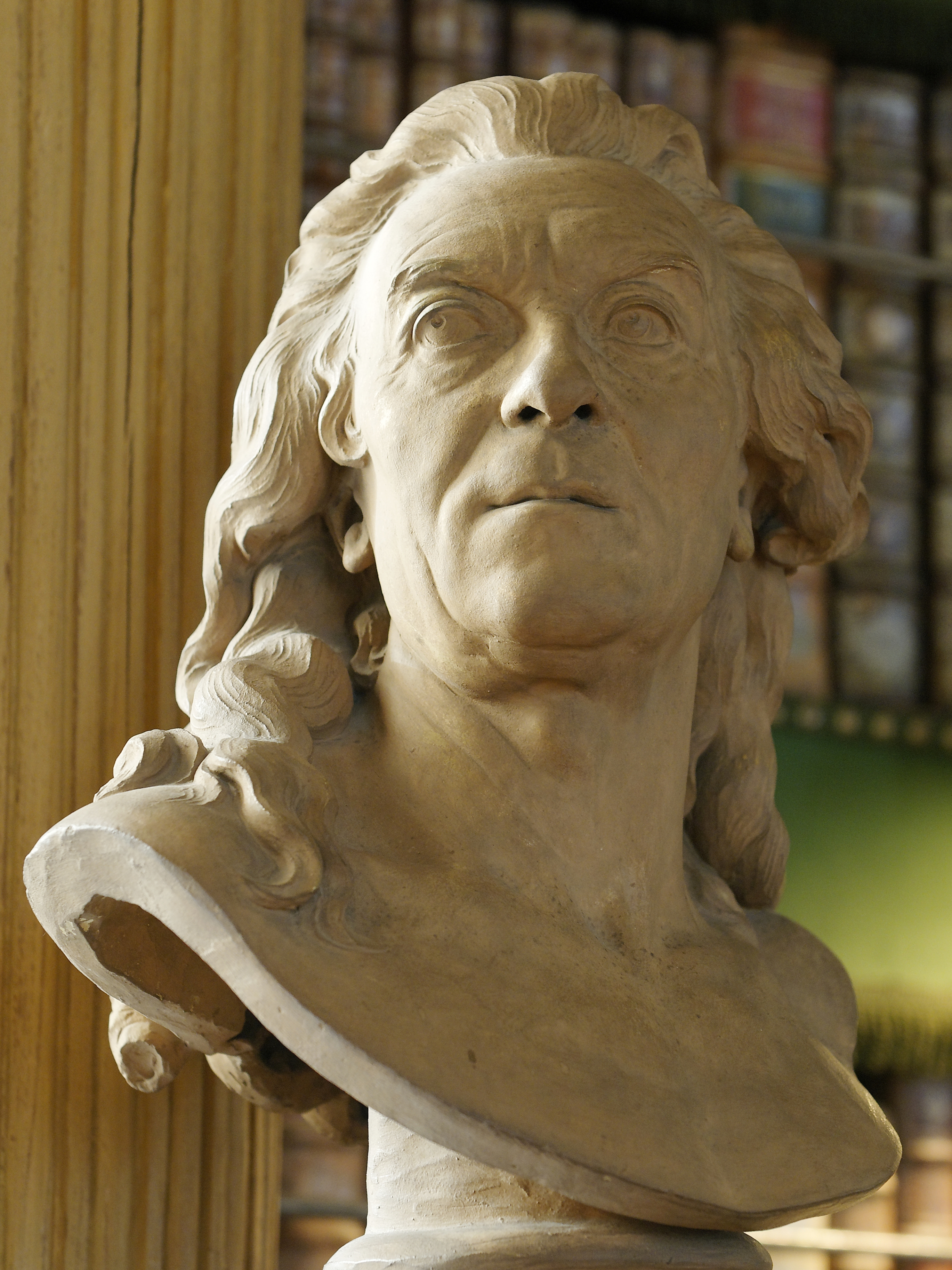 Bust of the Comte de Buffon (1707-1788)